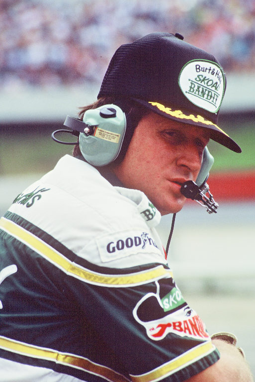 Travis Carter in the 1980's